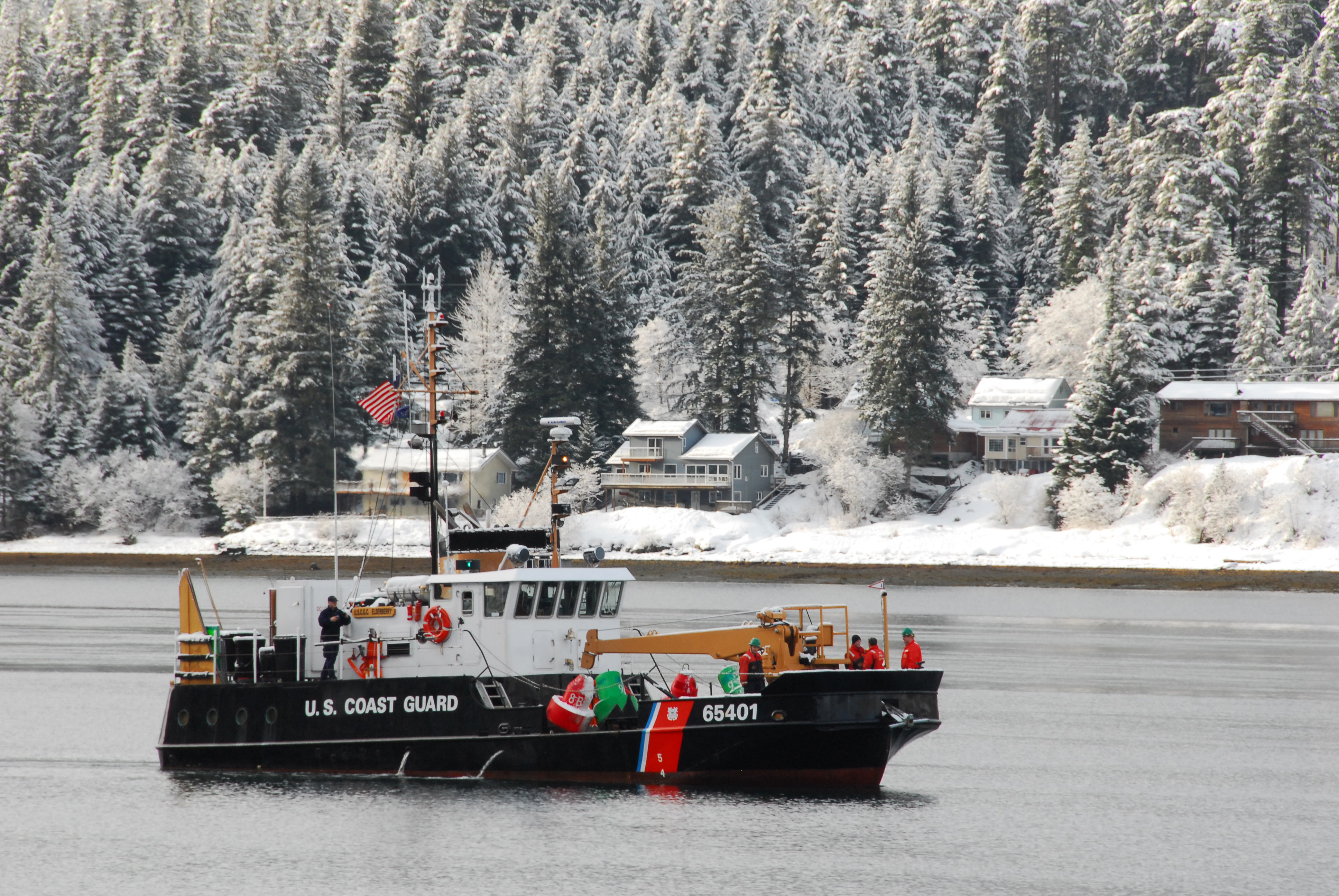 Crew members aboard the Coast Guard Cutter Elderberry, a 65-foot inland buoy tender homeported in Petersburg, Alaska, prepare buoys to be set in the Gastineau channel which runs through the Mendenhall Bar Wednesday, April 1, 2009